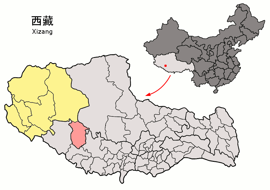 Location of Coqên County (pink) and Ngari Prefecture (yellow) within Tibet (Xizang) autonomous region of China